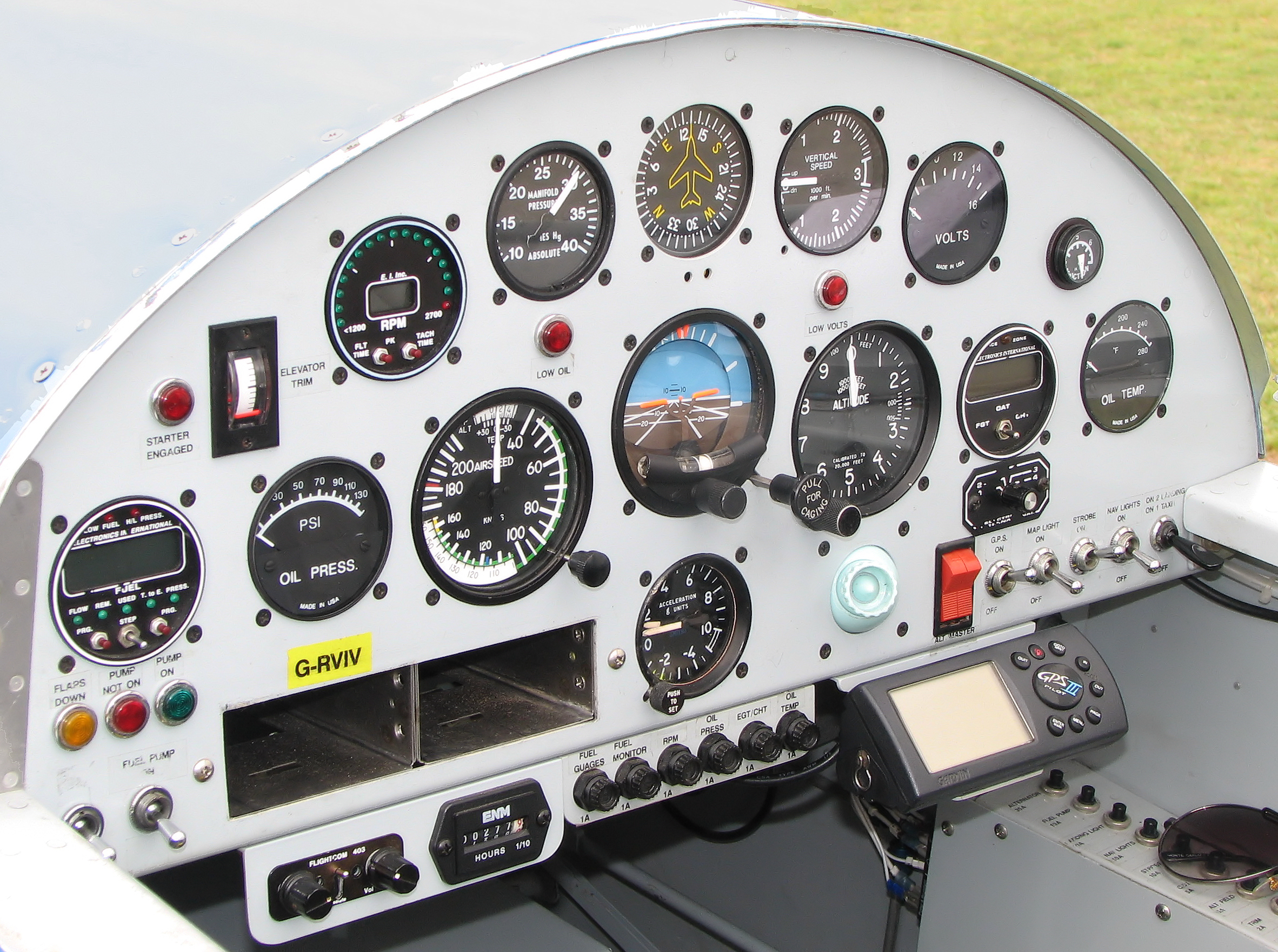 Cockpit of a Van's Aircraft RV-4 (G-RVIV) kit aircraft at a Popular Flying Association Rally at Kemble Airport, Gloucestershire, England. This aircraft was built in 1999. Note: the PFA is now called the LAA (Light Aircraft Association).